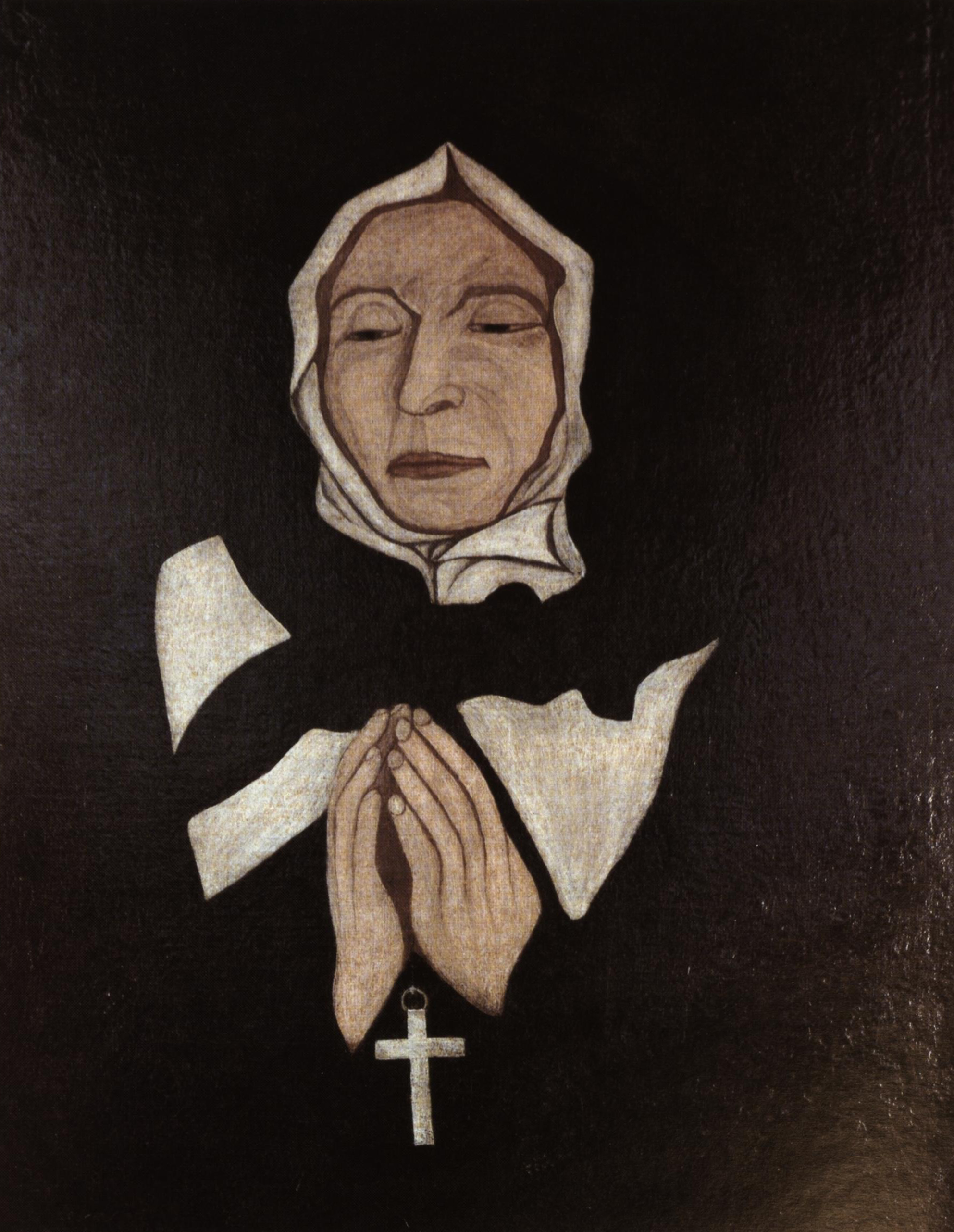 Portrait of Marguerite Bourgeoys, attributed to Pierre Le Ber, oil, 62.3 x 49.5 cm. In 1700. Collection of the Congregation of Notre-Dame, Marguerite Bourgeoys Museum.